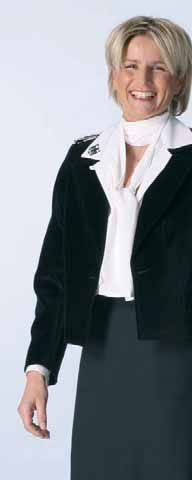 Mess dress of the German Armed Forces (Bundeswehr) (Army) standard format for women